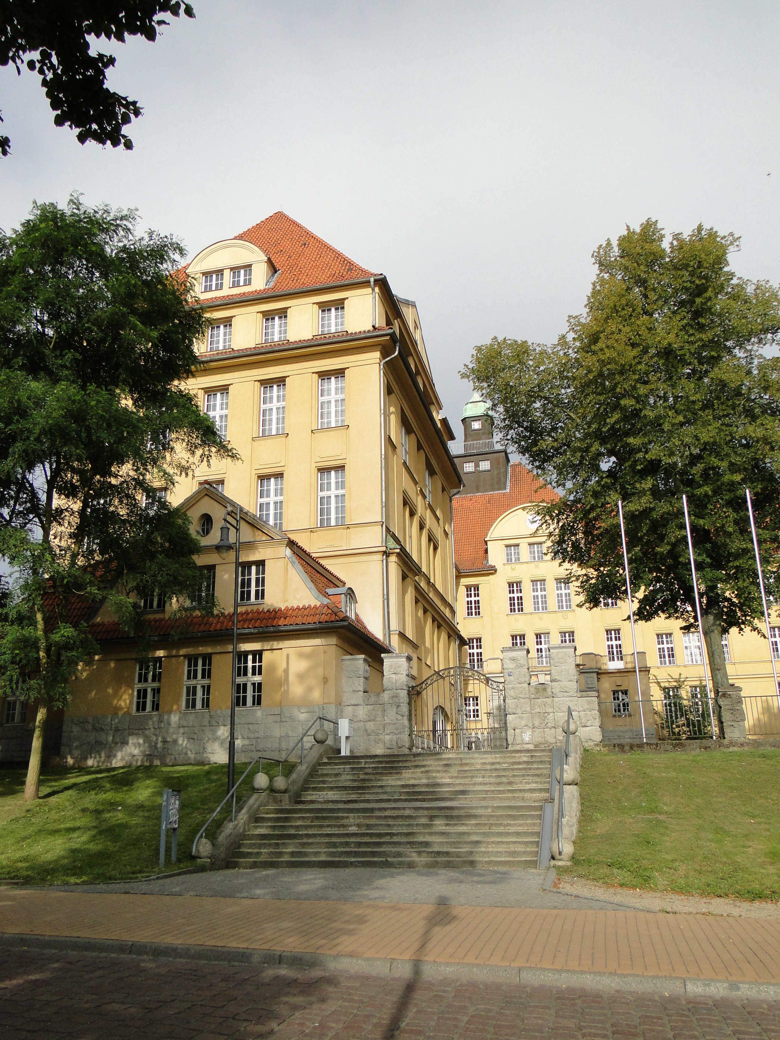 Lyzeum, since 1996 seat of the Fridericanum in Schwerin, Mecklenburg-Vorpommern, Germany